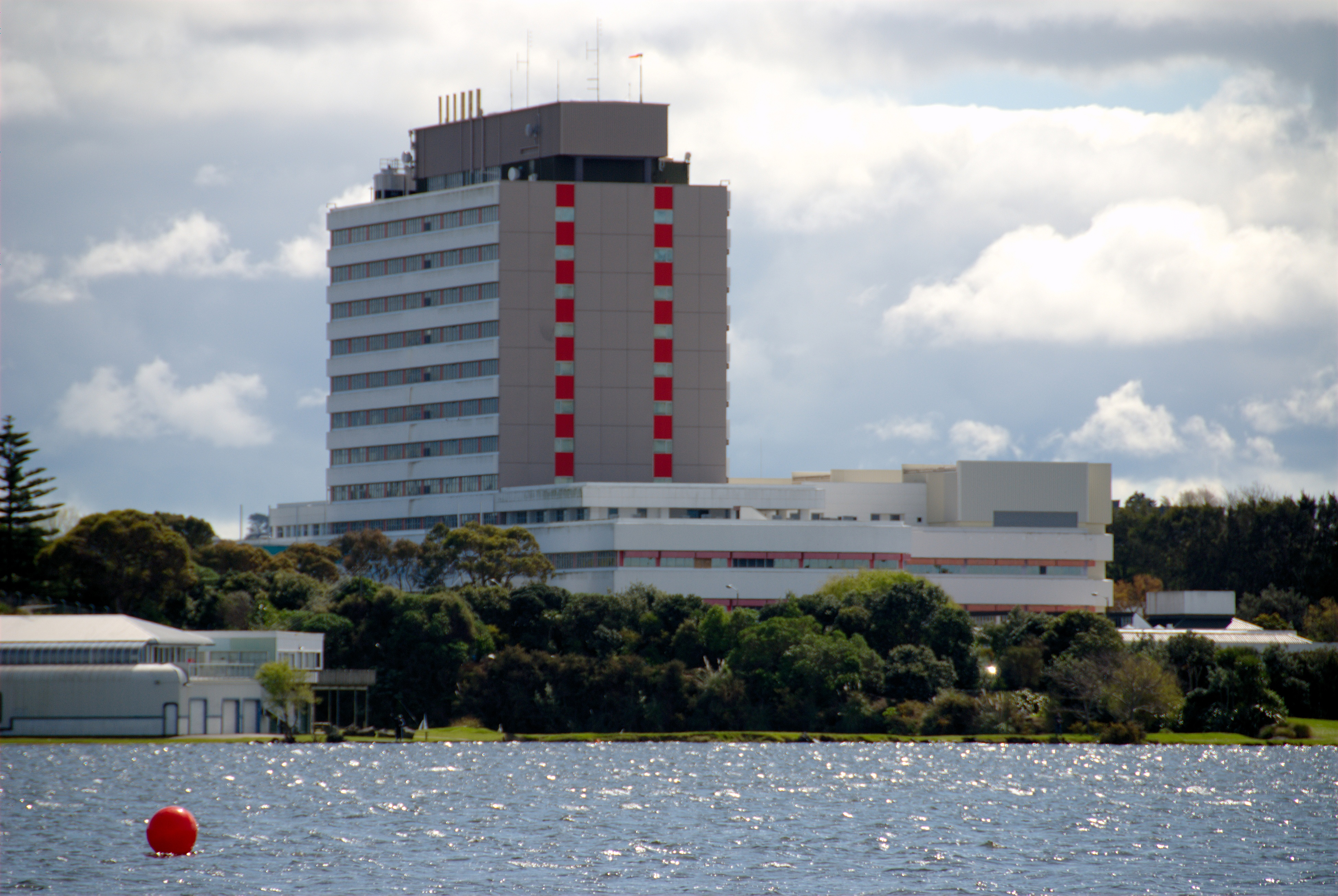 North Shore Hospital from across Lake Pupuke, looking northwest.